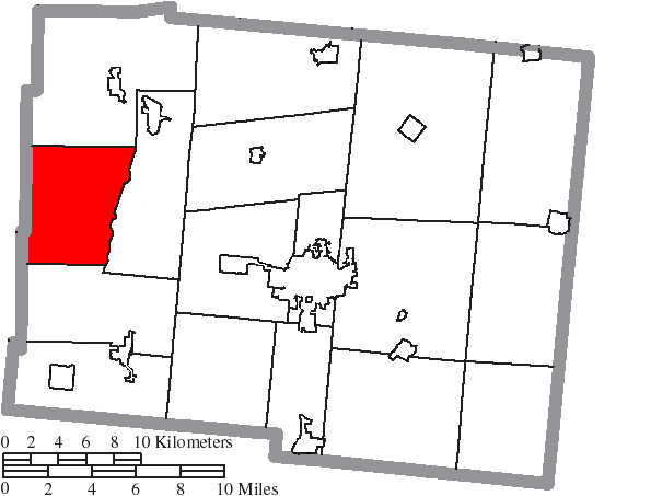 Map of the municipal and township boundaries of Logan County, Ohio, United States, as of the 2000 census, with the location of Bloomfield Township highlighted. Township borders are shown only in unincorporated areas in order to differentiate incorporated and unincorporated areas more clearly.